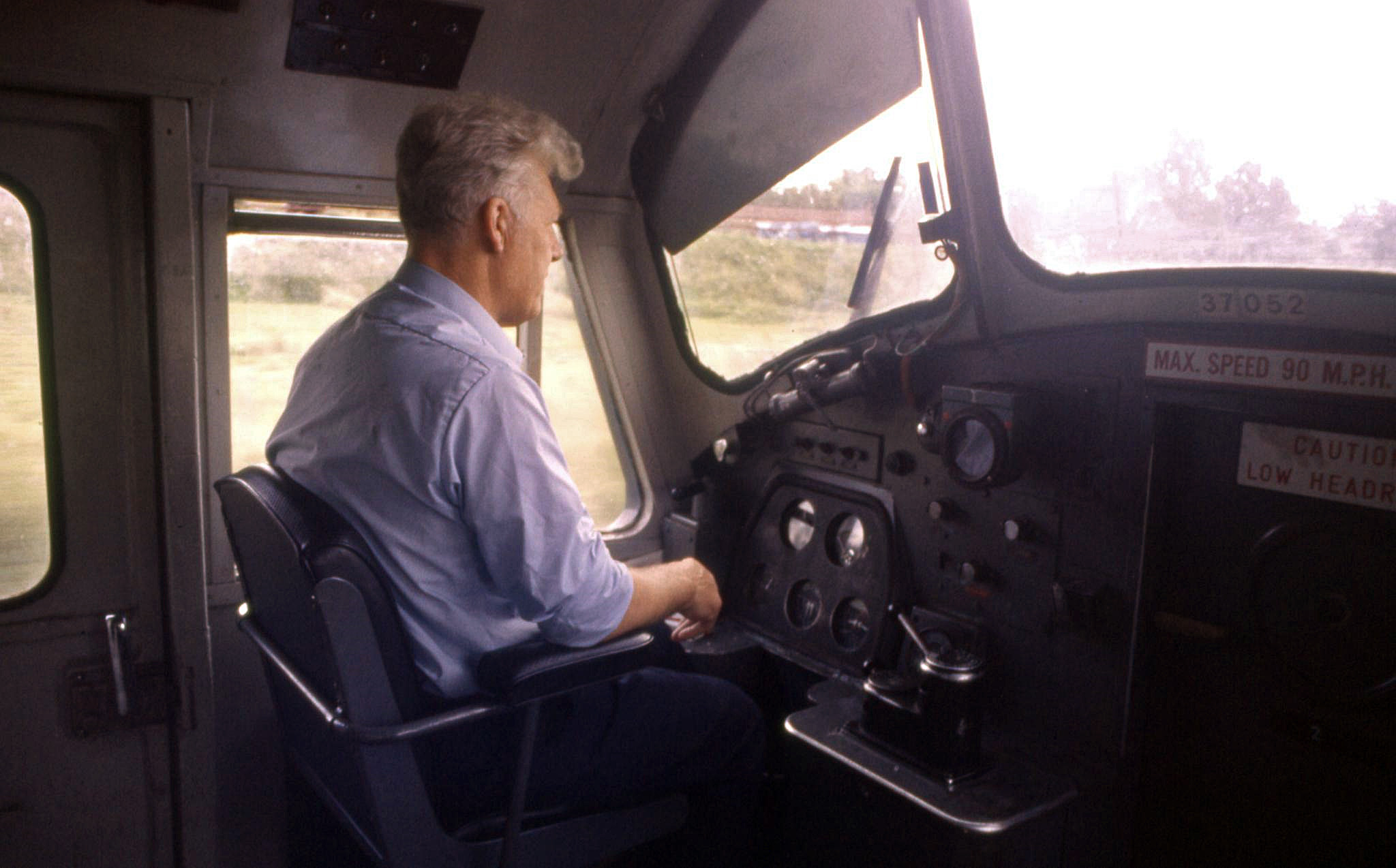 The cab of a British Rail Class 37.